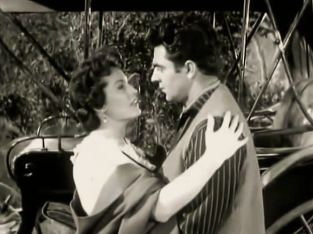 Jean Willes & Paul Picerni in the TV series Stories of the Century, episode Rube Burrows - cropped screenshot